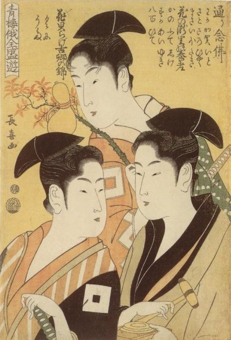 Most Splendid Entertainment of the Niwaka Festival in the Licensed Quarters (Seirō Niwaka zensei asobi), woodblock print by Eishōsai Chōki